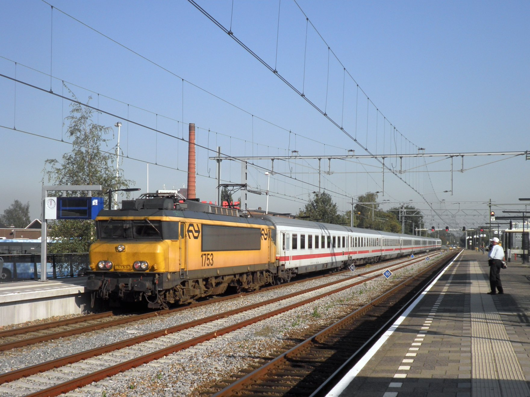 NS 1753 arrives at Apeldoorn with a service from Berlin to Hoofddorp.